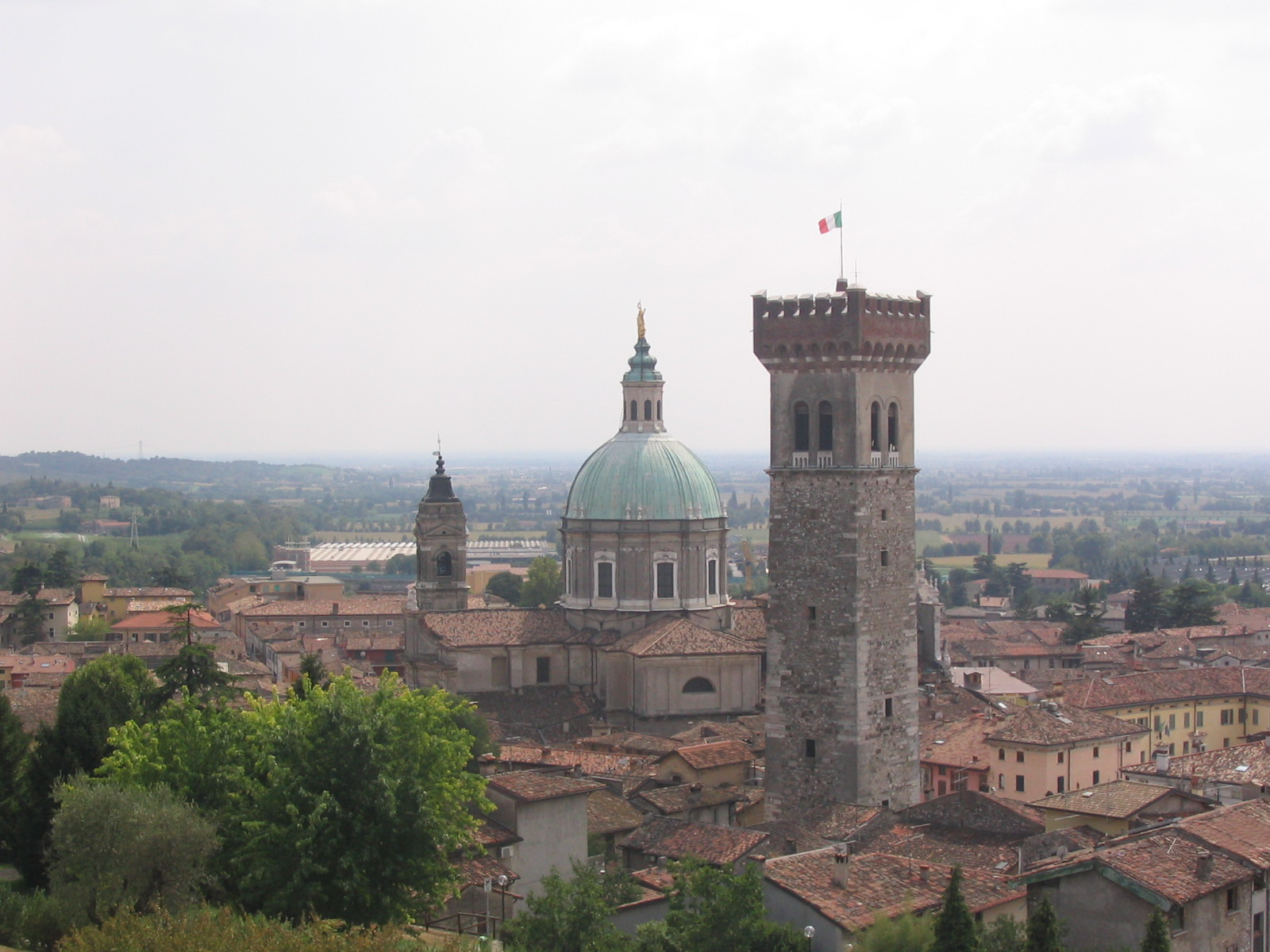 Lonato